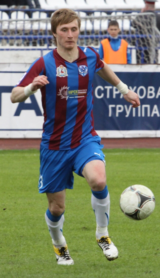 Aleksandr Kharitonov with FC Volga Nizhny Novgorod